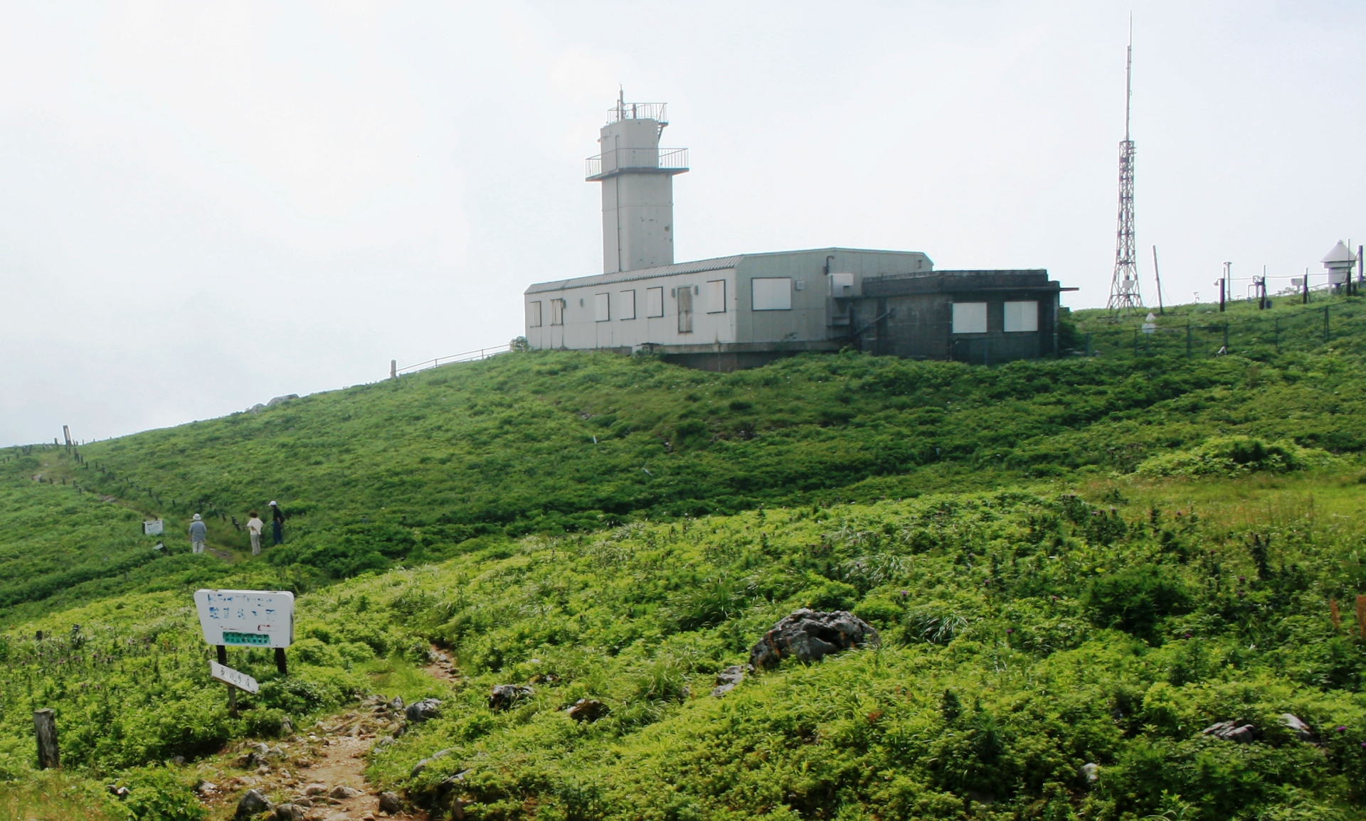 Weather station on Mount Ibuki